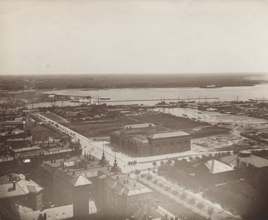 The newly built Ny Carlsberg Glyptotek with H. C. Andersens Boulevard in the foreground and Tømmergraven and the lumberyards in the background in Copenhagen, Denmark